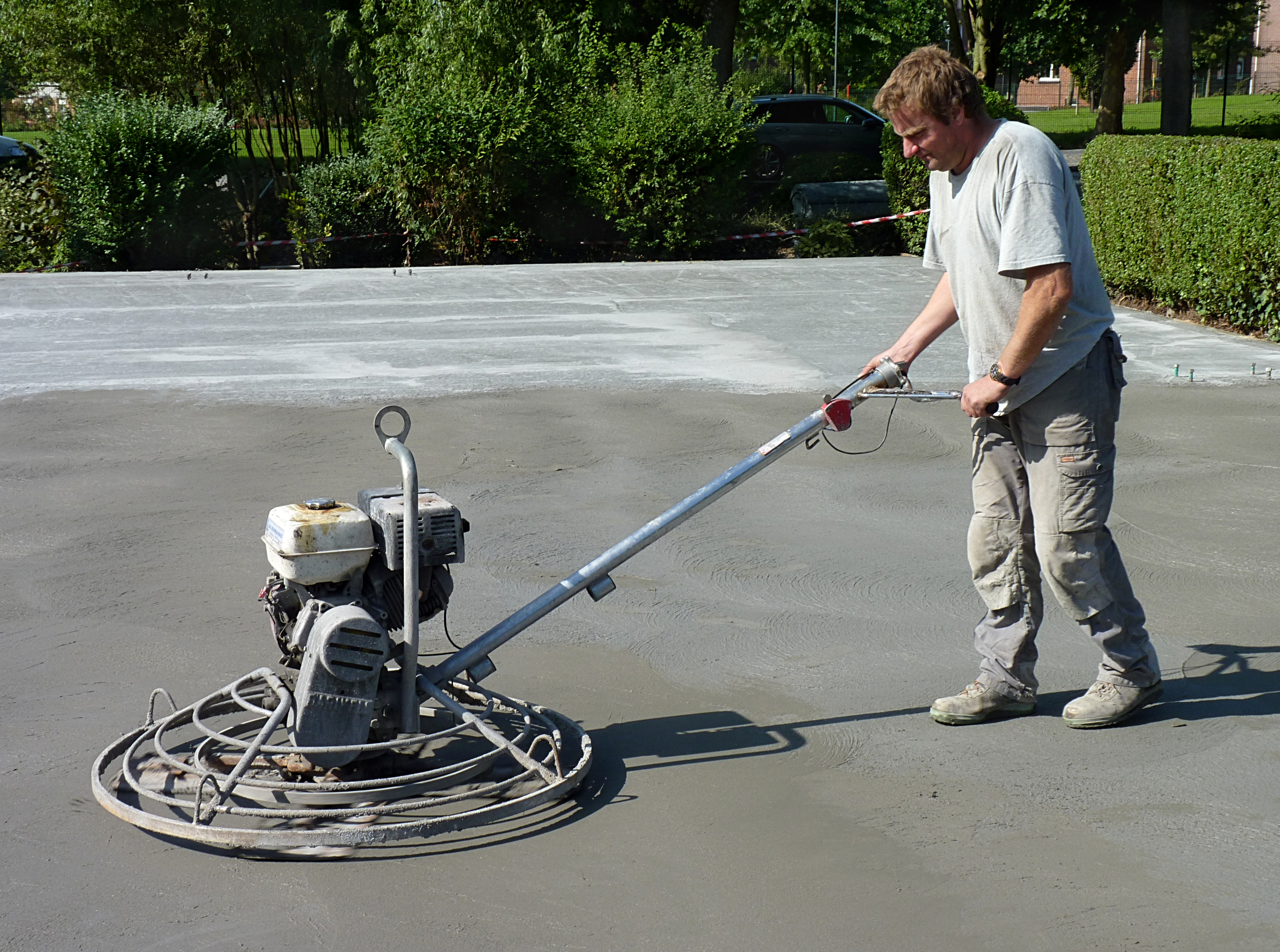 Worker polishing a concrete slab with a polishing machine, picture taken in Belgium.